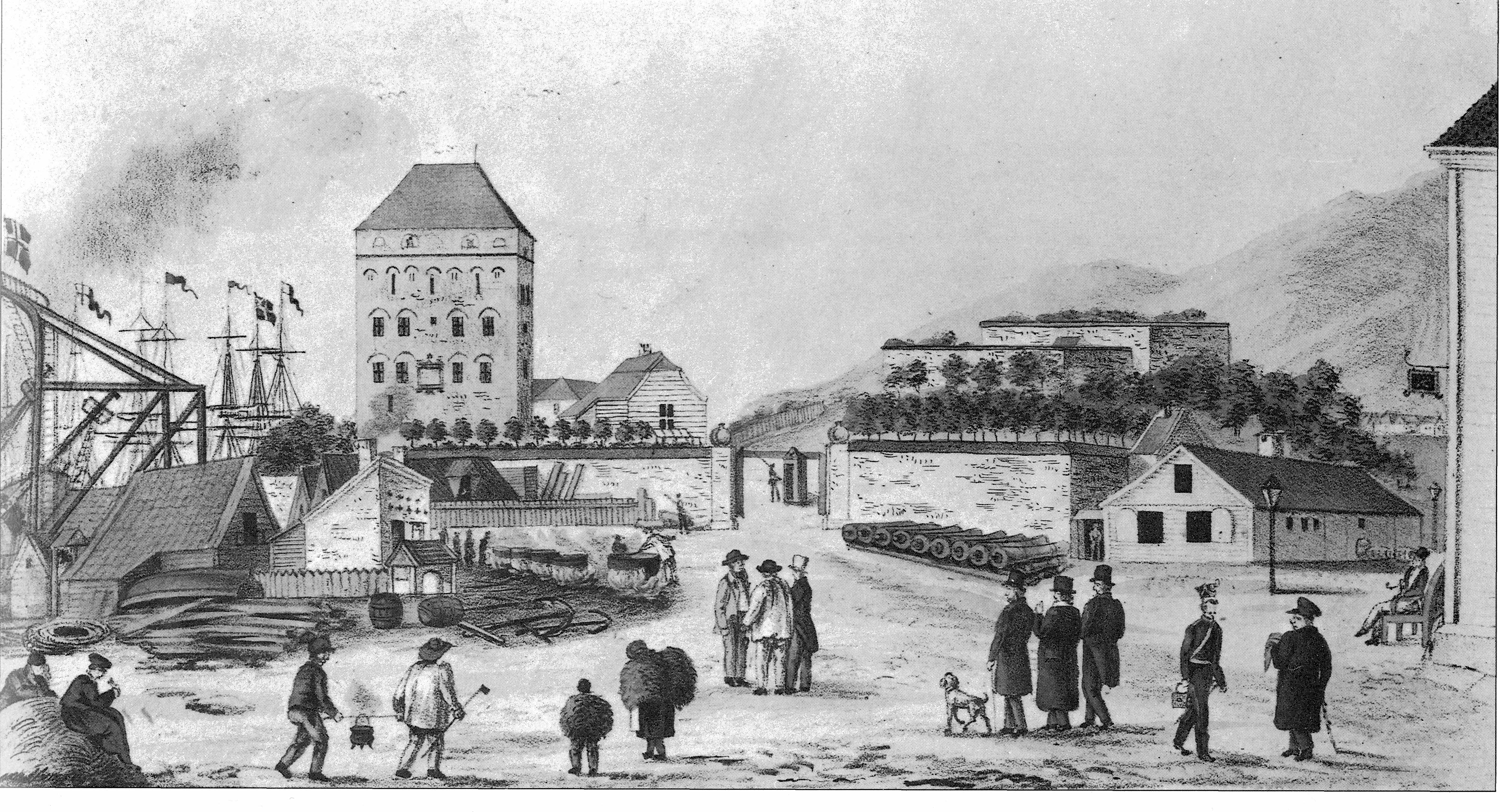 Drawing showing the area outside the entrance of Bergenhus Fortress in Bergen, Norway.